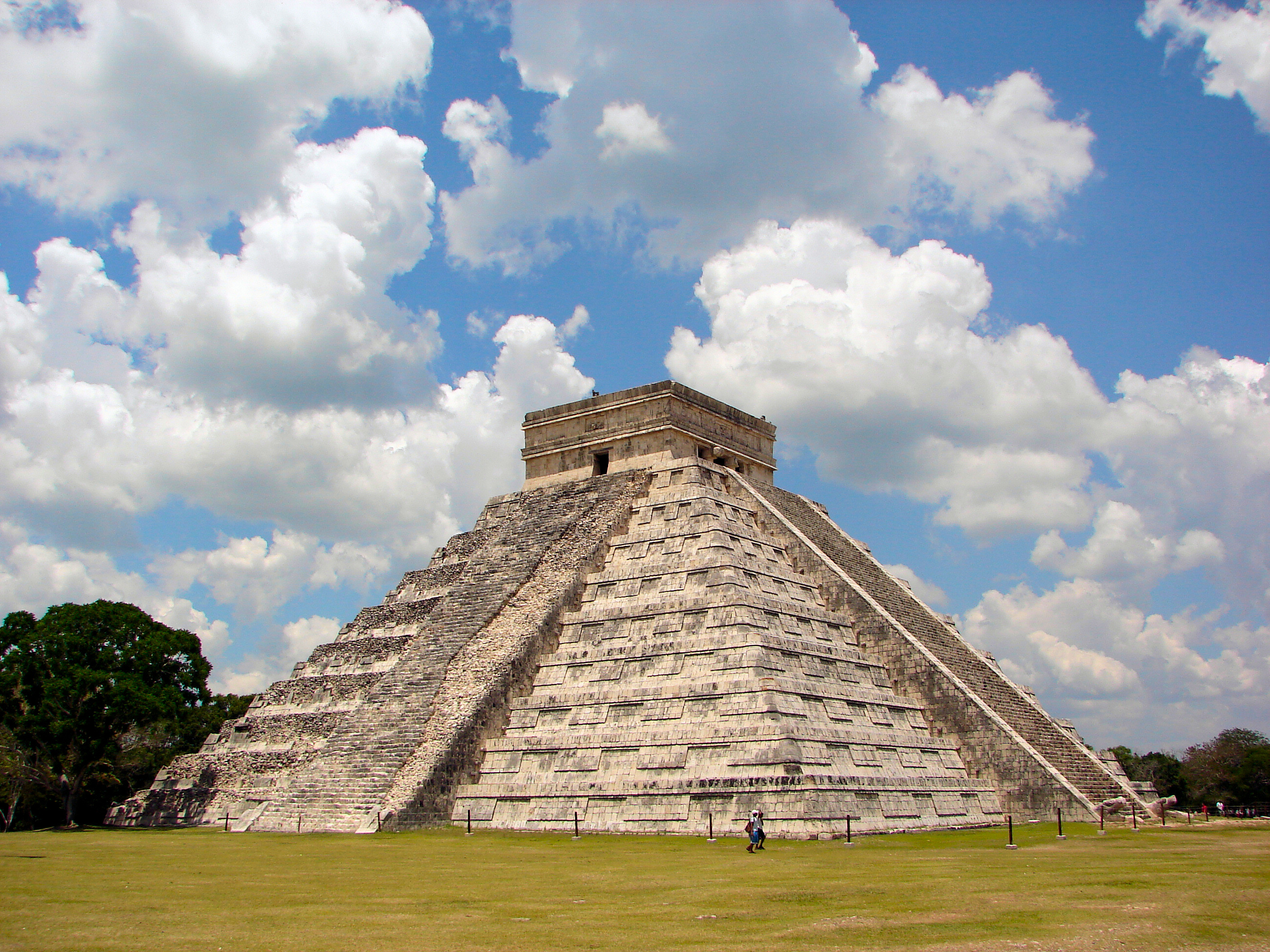 The Castle (El Castillo) at the World Heritage Site Chichen Itza. From the east side you can see both the restored side and the still rather ruinous side of the pyramid.